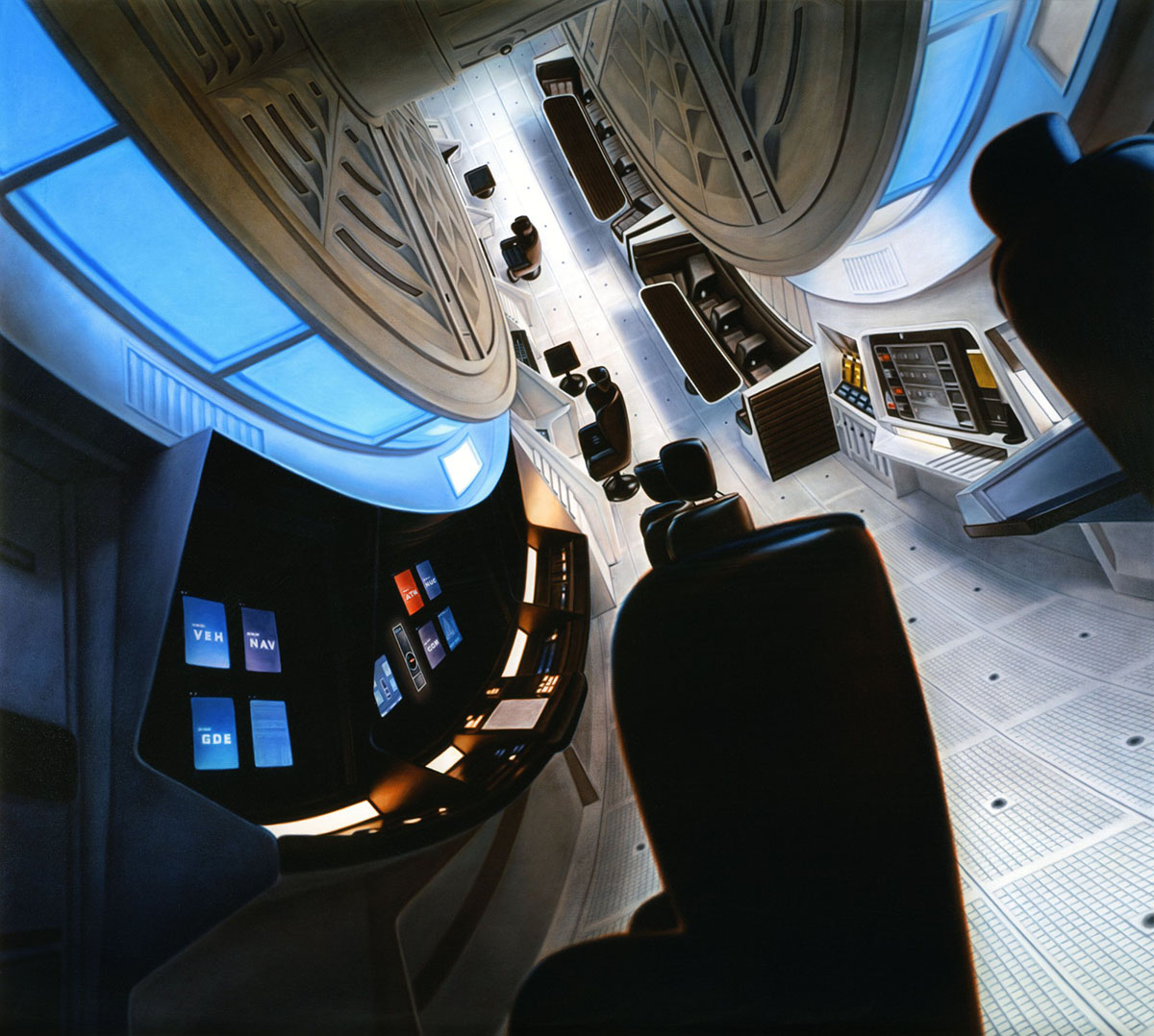 Afternoon Mr. Amer, a Painting by Damian Loeb, 203 108x120in Oil on Linen